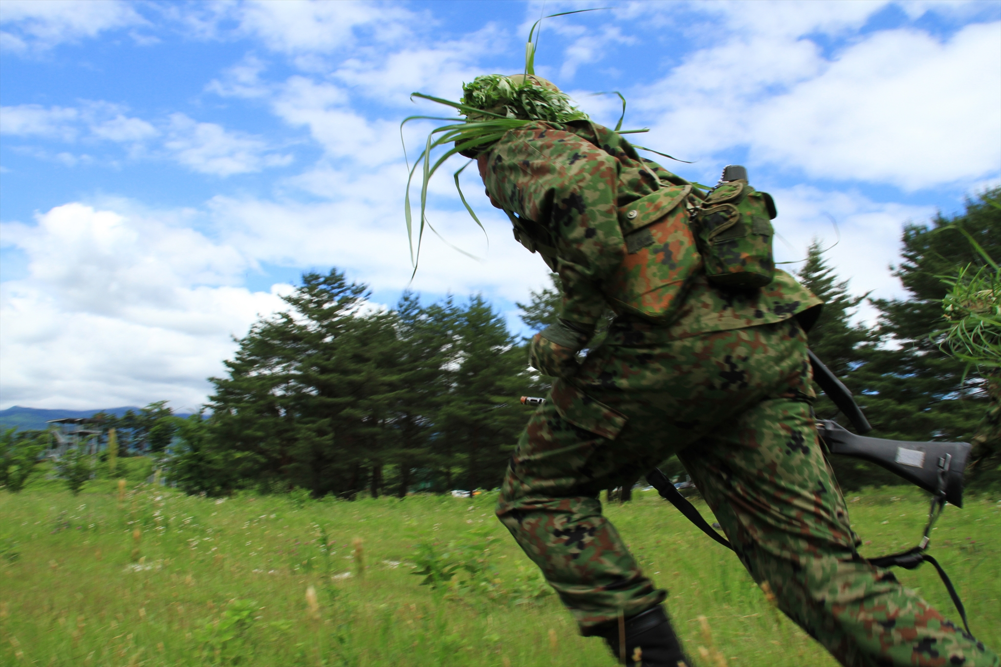 Title 44i-KW-6 (自衛官候補生教育「晴天を駆ける」)_R.JPG Album 教育訓練等 戦闘訓練（自衛官候補生）